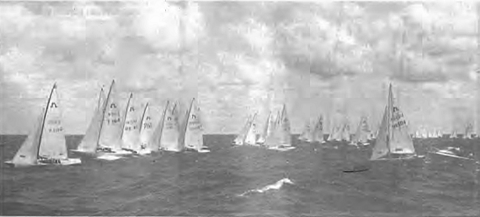 Starting in a good breeze at the 1975 Soling Worlds